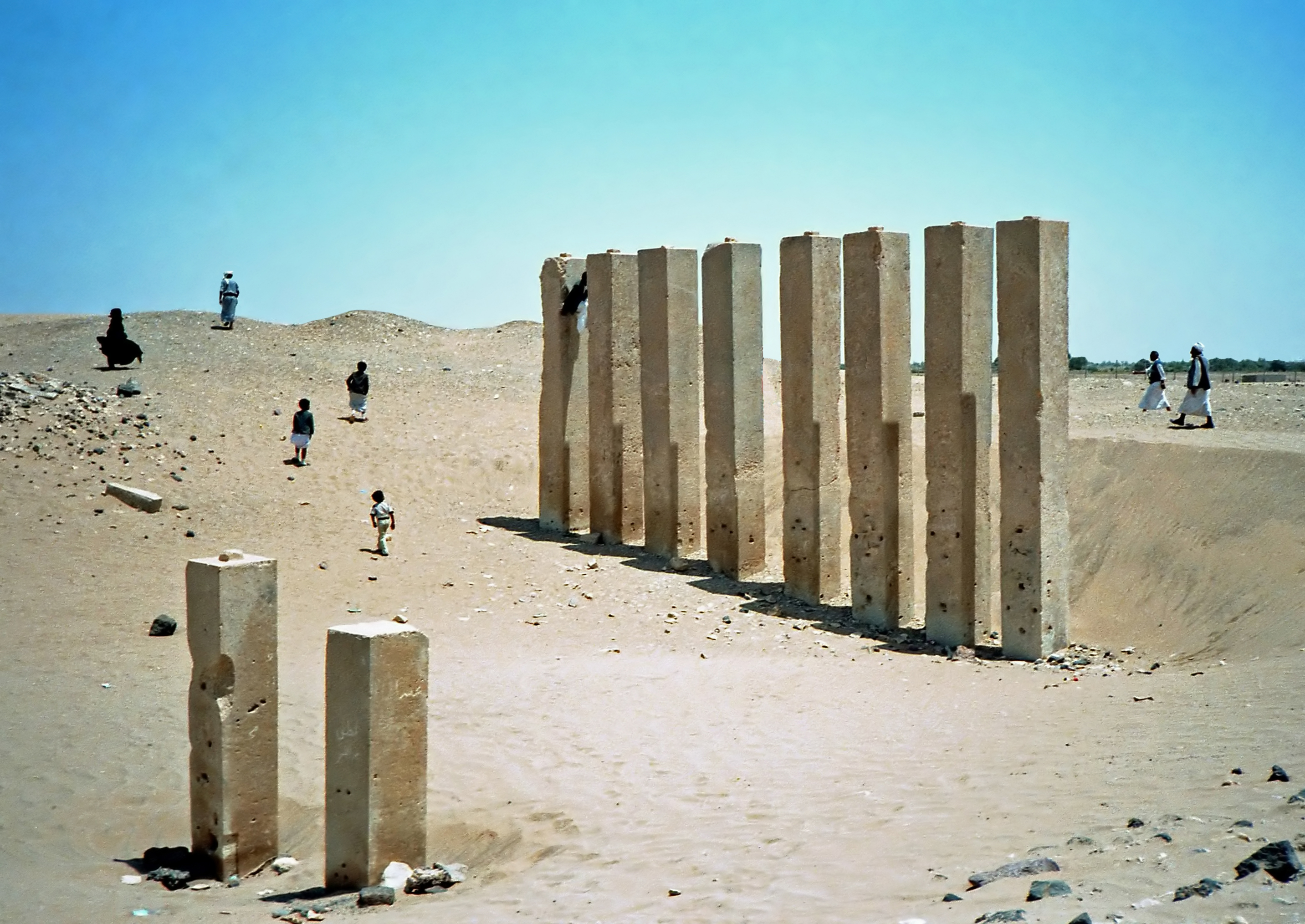 Ruins of Mahram Bilqis or Awam Temple in 1986 near Ma'rib, Yemen